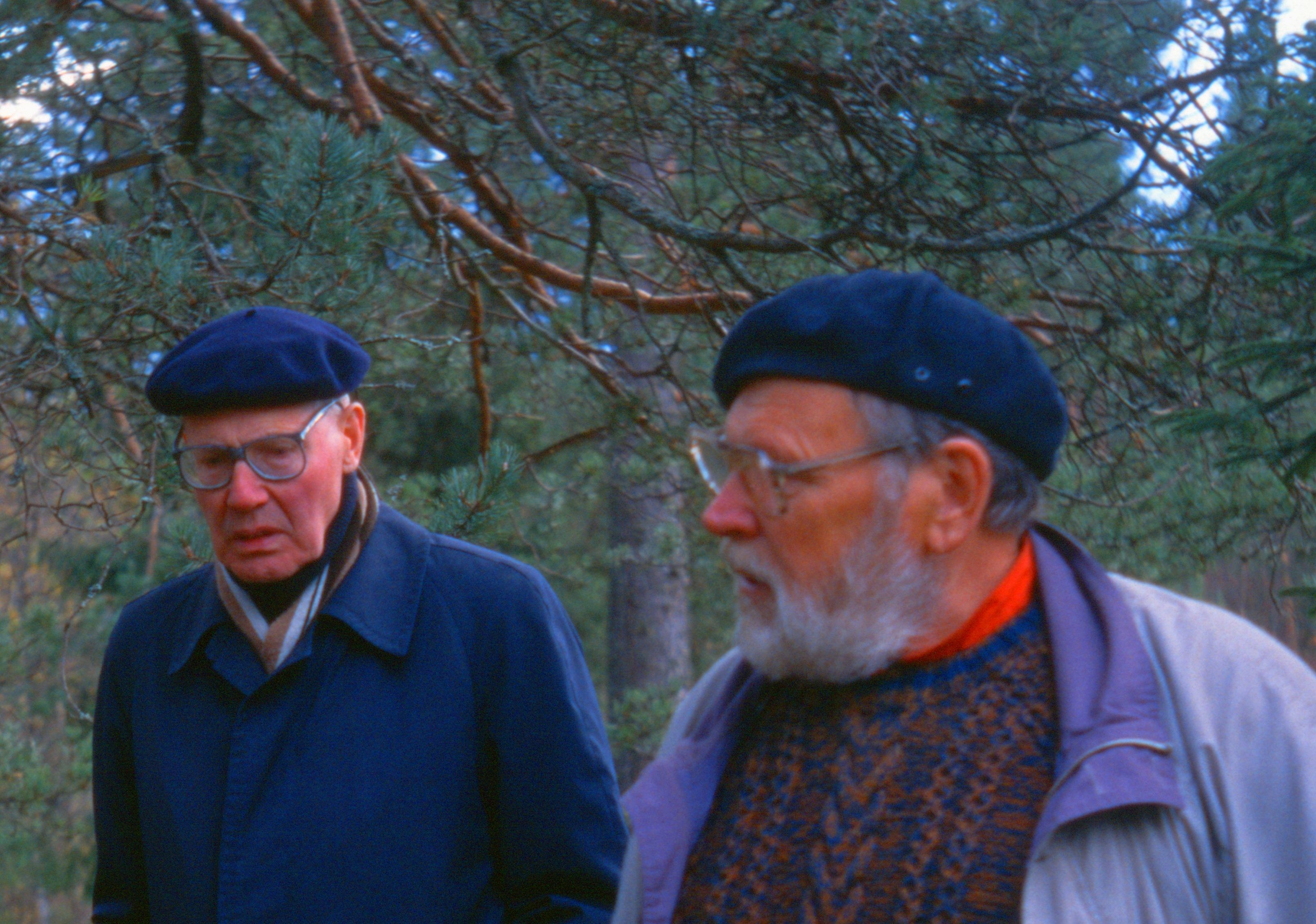 Editor Harro von Hirschheydt (left) with the Latvian author Vladimirs Kaijaks